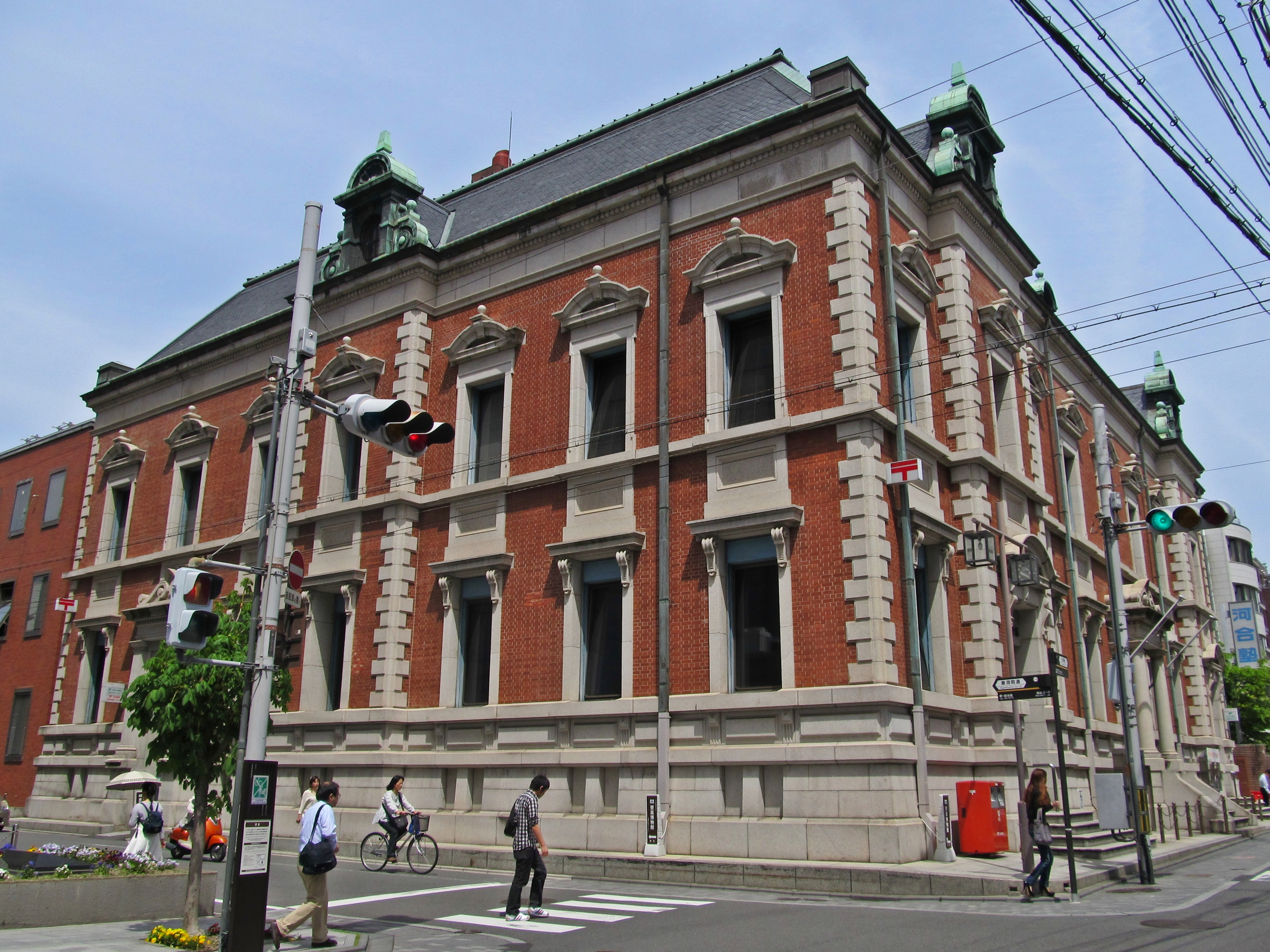 Nakagyō Post Office (Nakagyō-ku,Kyoto,Kyoto,Japan)